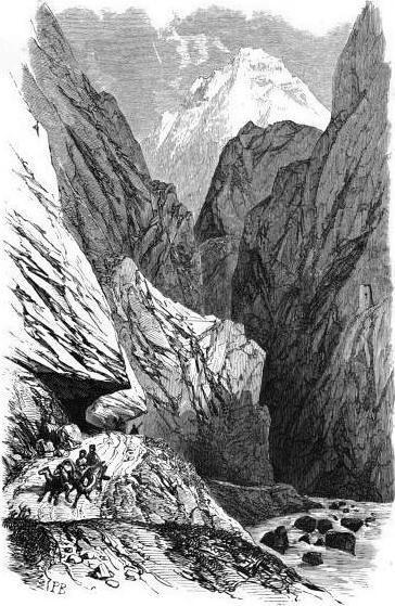 "Le Darial", from Lettres sur le Caucase et la Crimée, by Florent A. Gille (Gide, 1859)